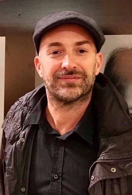 Color photograph of author Joel Willans standing next to a portrait of himself at a book fair booth